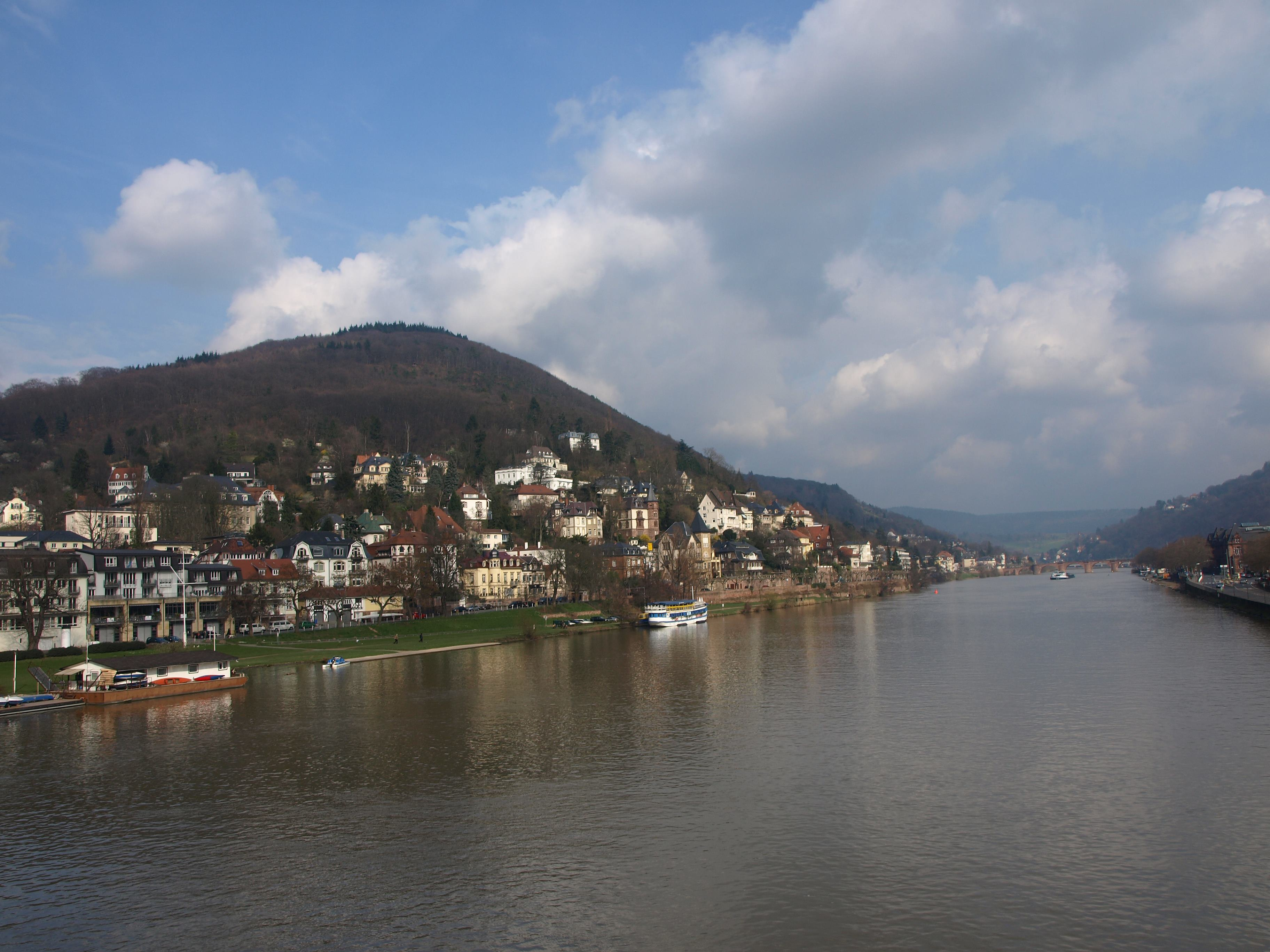 The mountain Michaelsberg in Heidelberg with Neuenheim and the Neckar